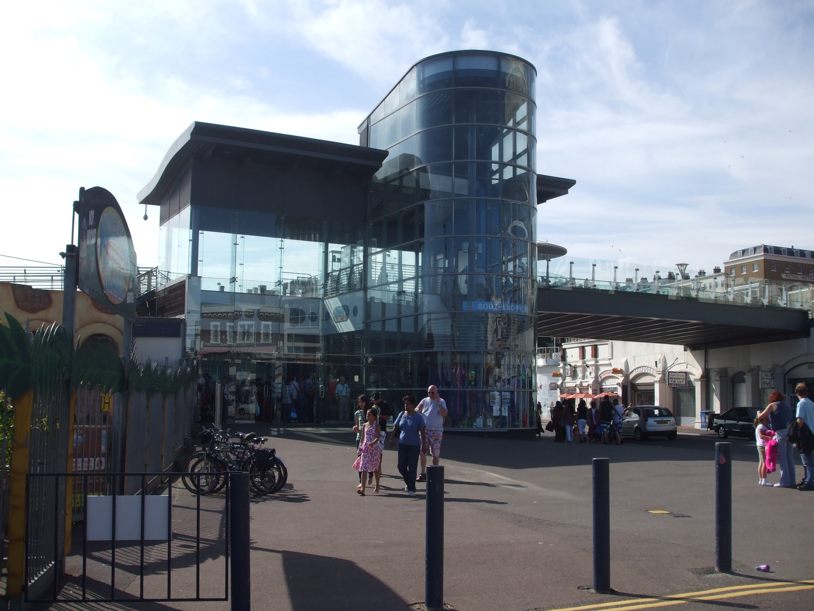 Northeast entrance to Southend Pier and Shore station on the Southend Pier Railway